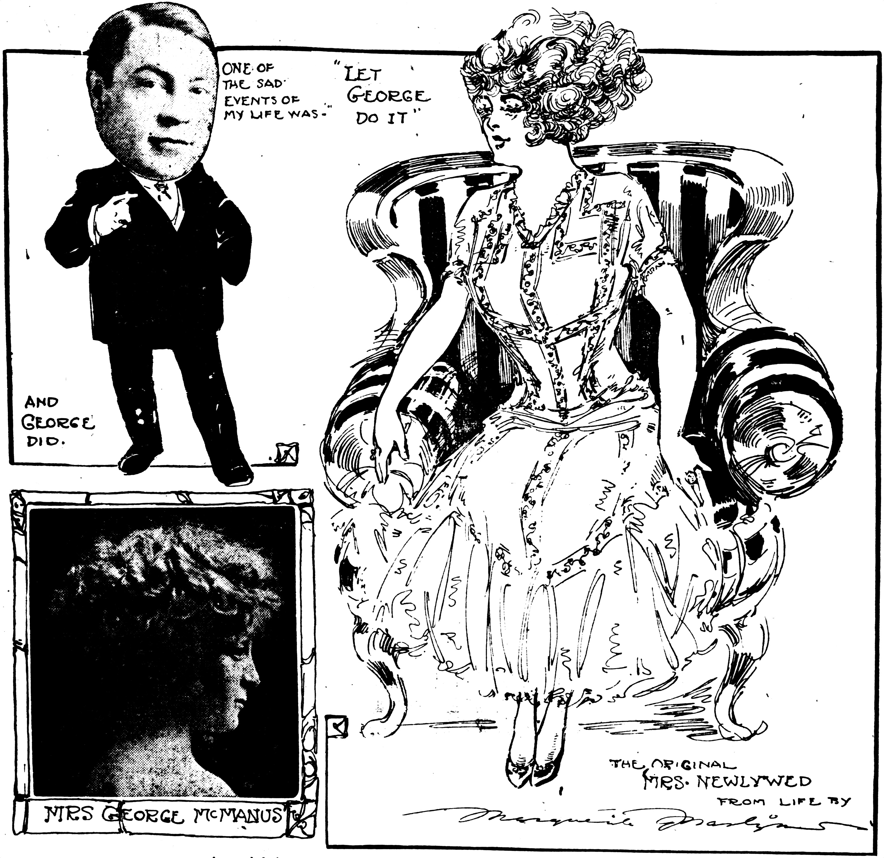 Photos of cartoonist George McManus and his wife, with a sketch of the latter, compiled by artist Marguerite Martyn for the St. Louis Post-Dispatch and published on January 16, 1910